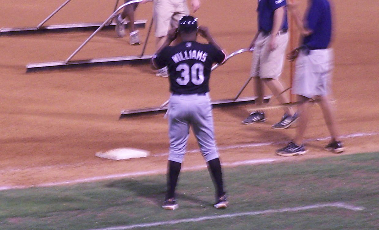 Dallas Williams, former MLB outfielder, coaching baseball for the Norfolk Tides.